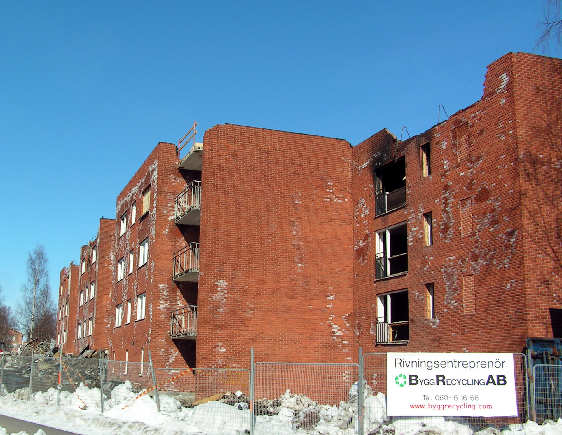 The remains of the buildings of the fire in Ålidhem, Umeå, Sweden 2008